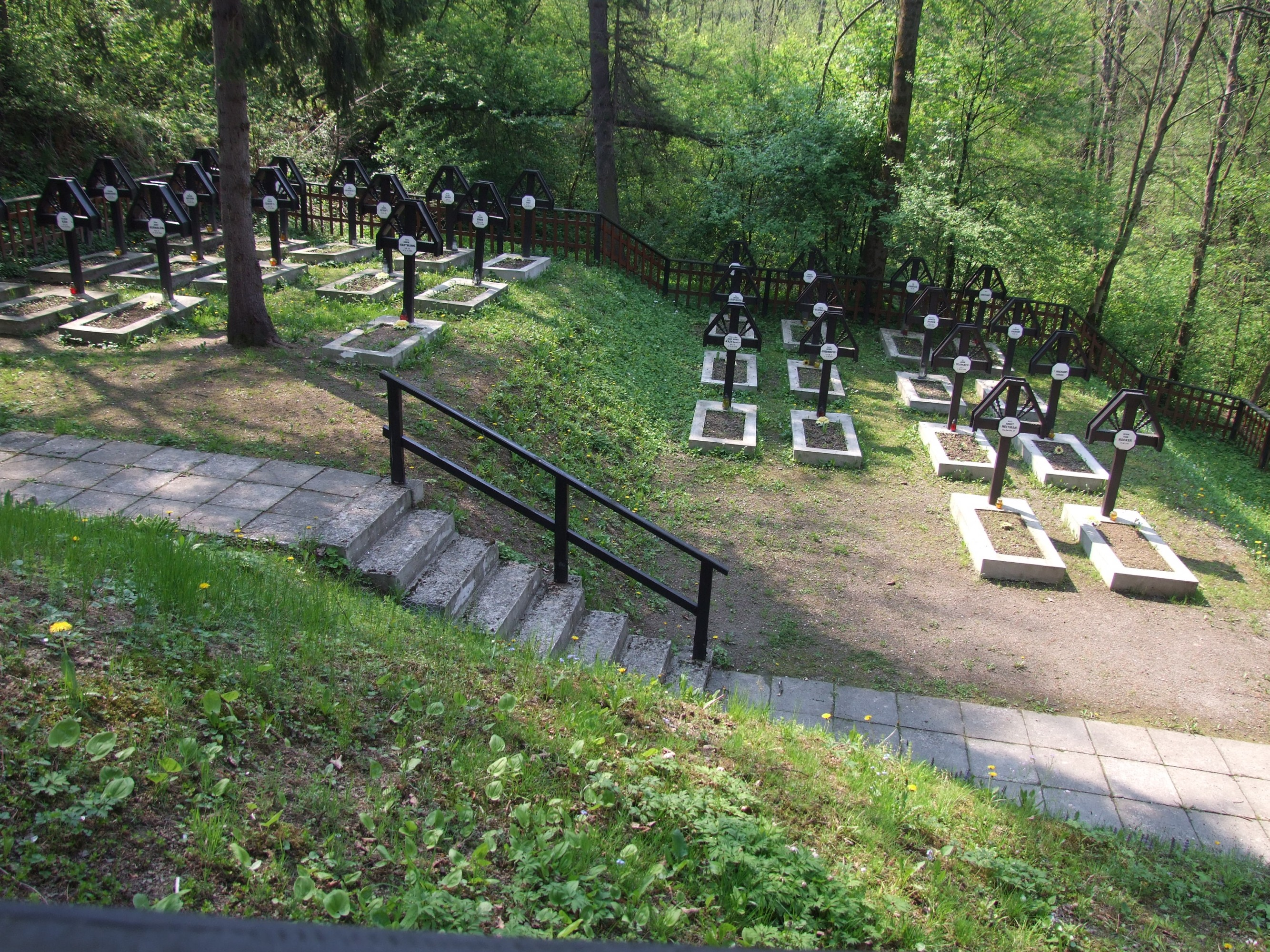 World War I Cemetery nr 365 in Tymbark